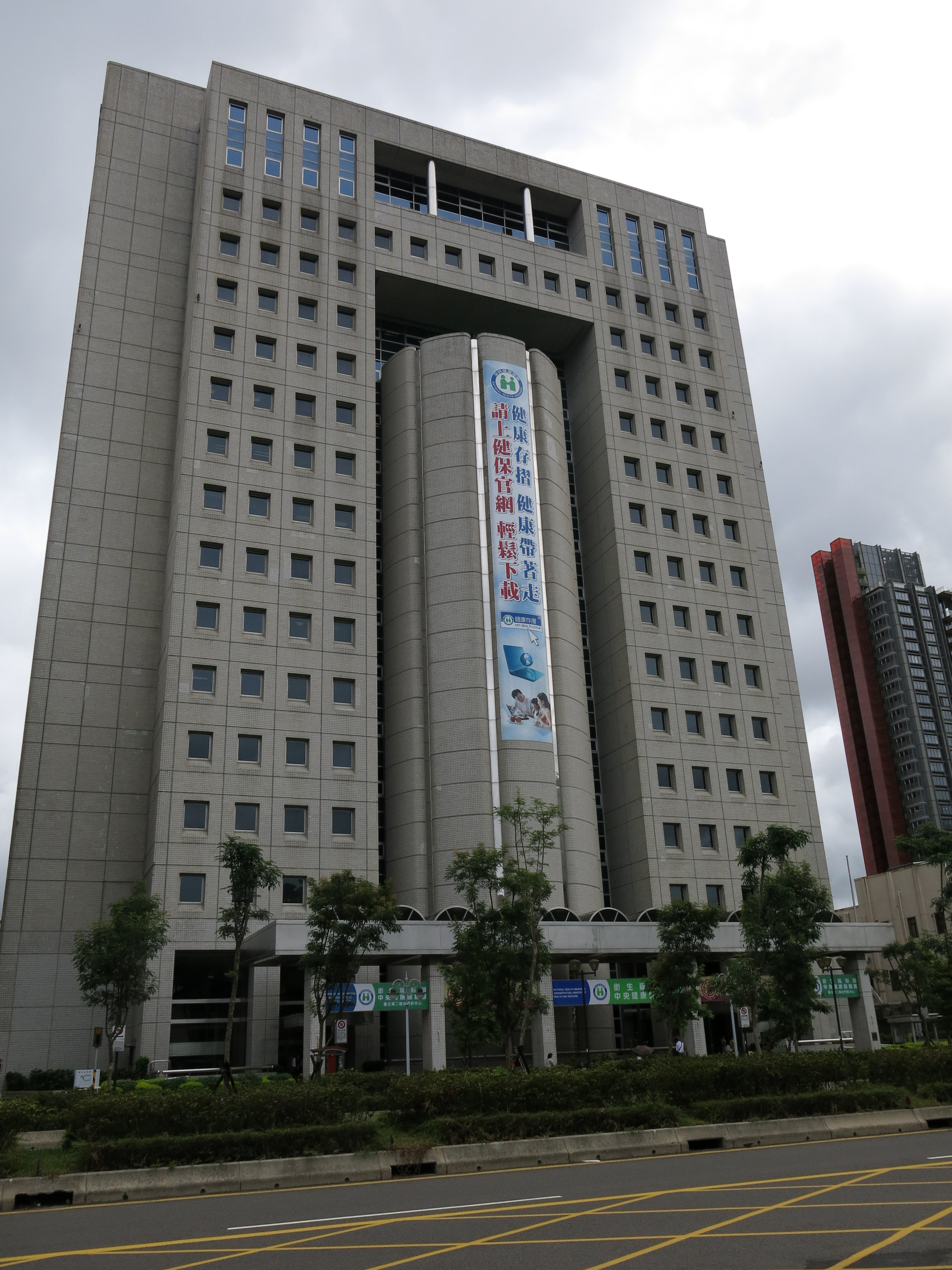 Gongbao Xinyi Building, Central Trust of China.